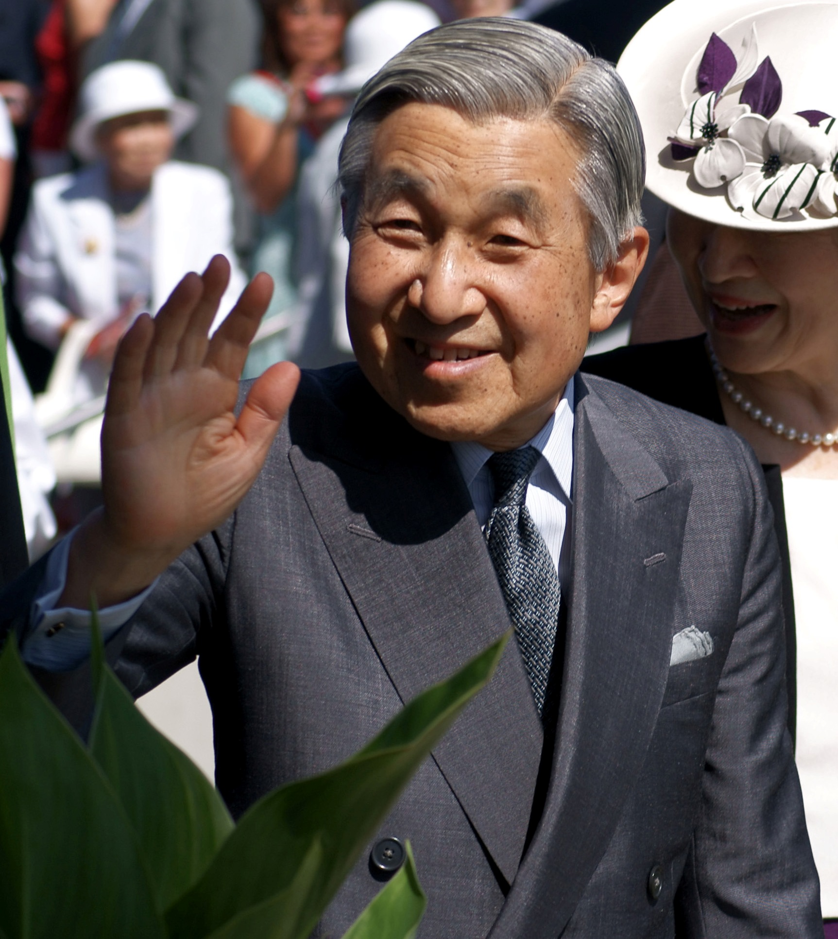 Akihito